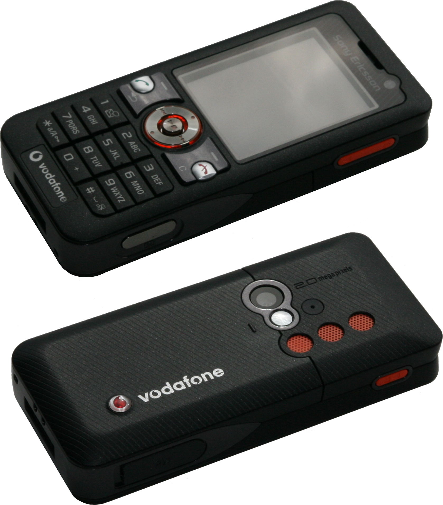 Front and back views of the Sony Ericsson V630 mobile phone.